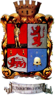 Leon Guanajuato